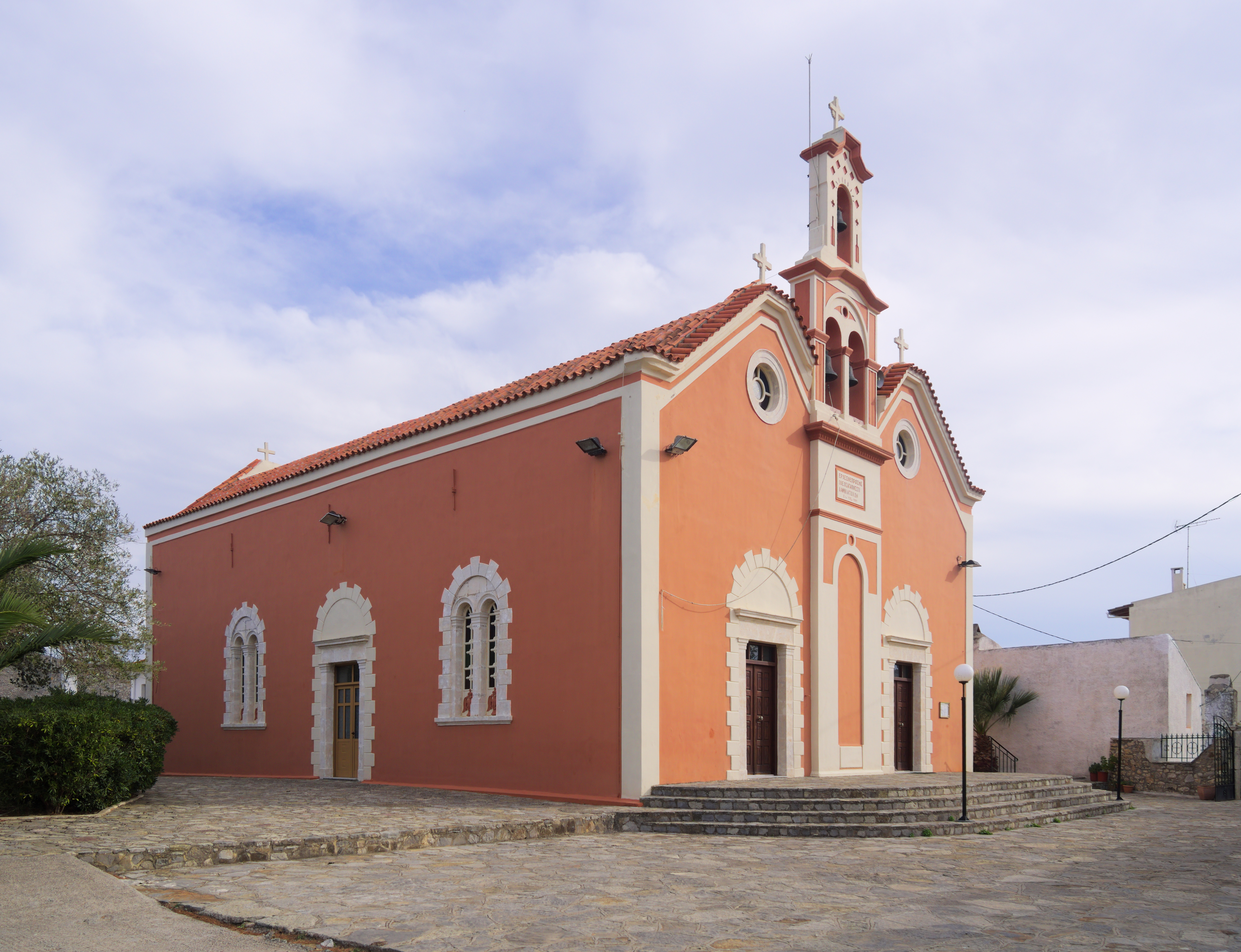 The church of John the Baptist in Smari, built in 1926-29.